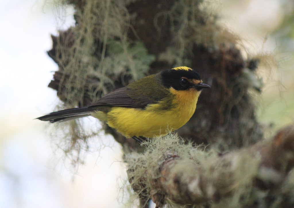 Yellow-crowned Whitestart Lovely bird. Photographed above El Dorado Lodge, Sierra Nevada de Santa Marta, Colombia.